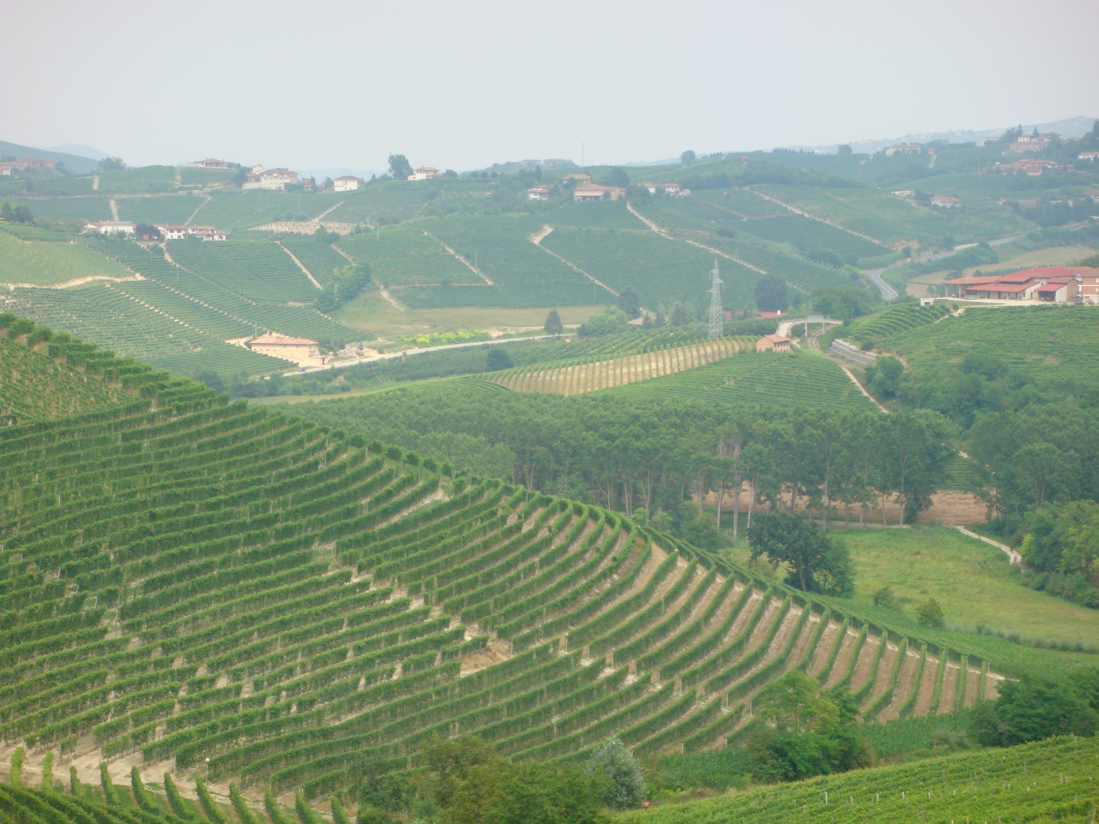 Vineyards in the Italian wine region of Alba, Piedmont.